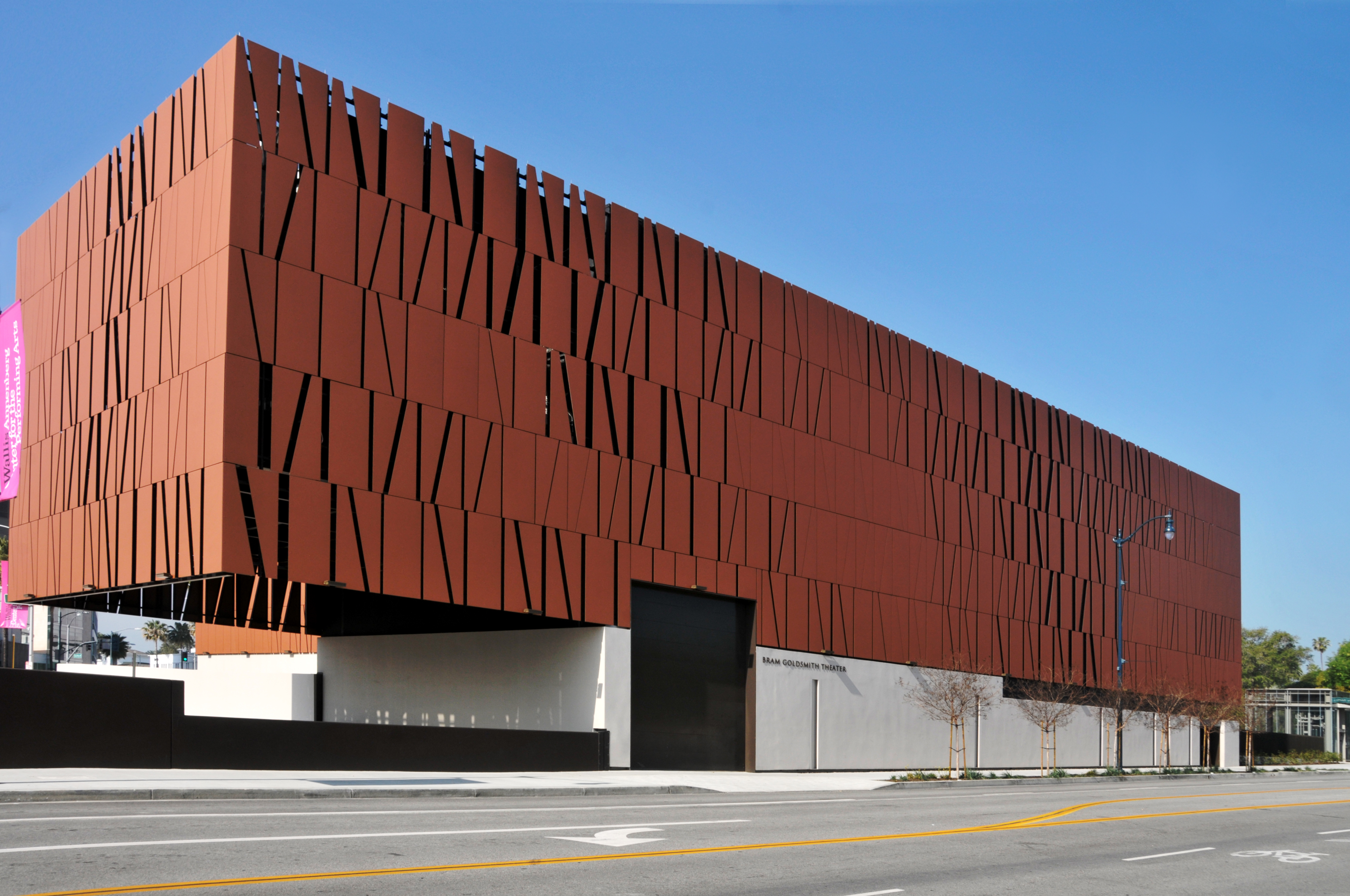 Wallis Anneberg Center for the Performing Arts Looking North-West, Beverly Hills California - Photo by Glenn Francis of